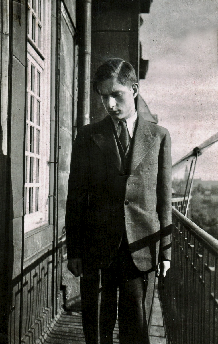 Algirdas Savickis (10 September 1917 in Copenhagen – 1 October 1943 in the Kovno Ghetto in German-occupied Lithuania) was a Lithuanian painter, the oldest son of the Lithuanian diplomat and writer Jurgis Savickis (1890–1952) and Ida Trakiner-Savickienė (1894–1944), a dentist whose (Jewish) family was settled in Saint Petersburg where she owned a glass factory. Algirdas Savickis was shot by a Lithuanian guard of the ghetto when he tried to protect his young wife.